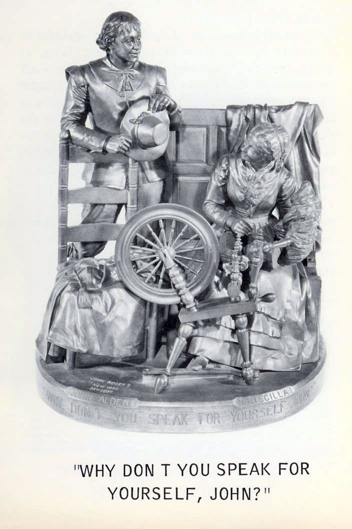 Sculpture of John Alden and Priscilla Mullins: "Why Don't You Speak for Yourself, John?"